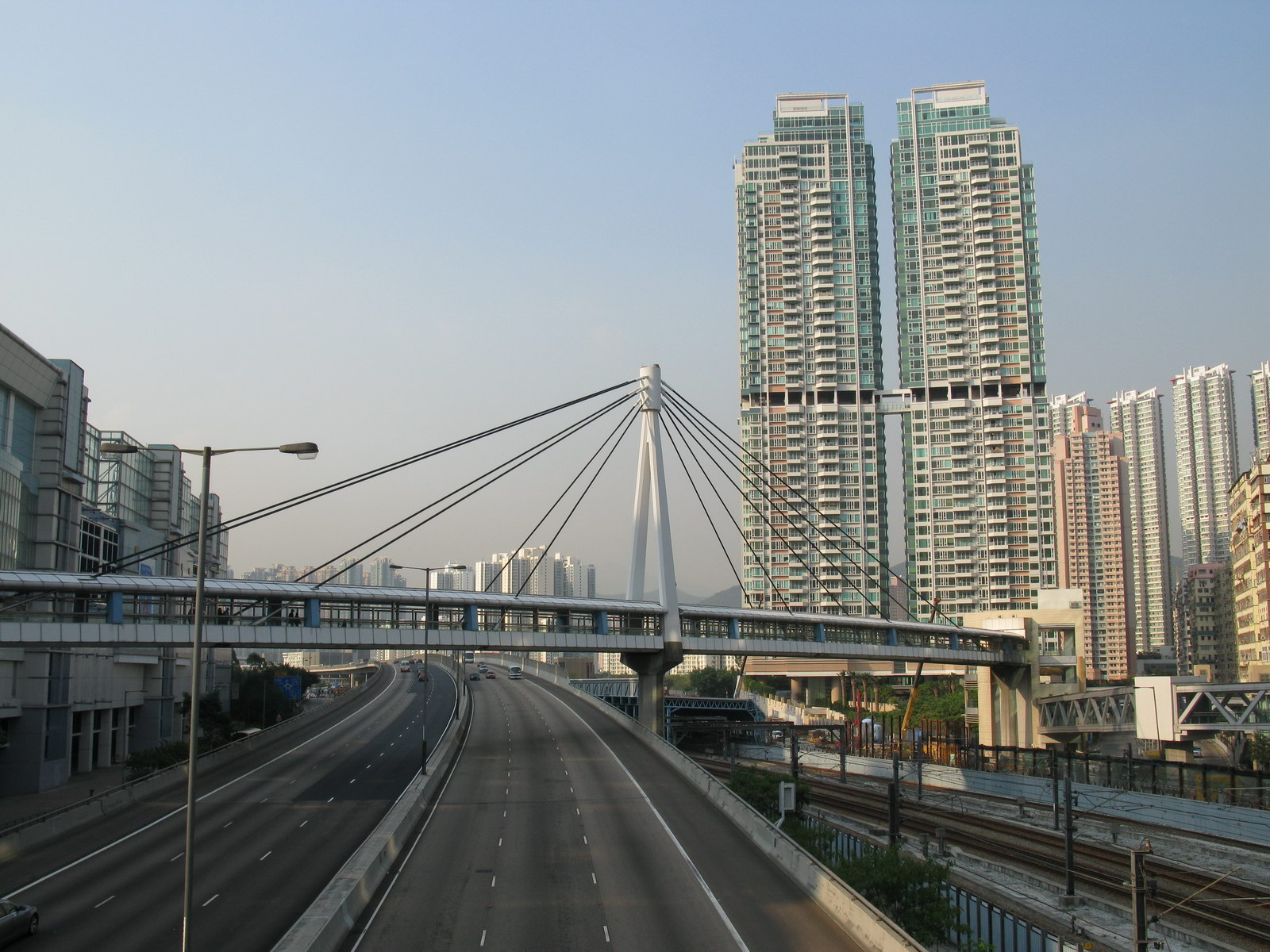 君匯港及大角咀一帶 Harbour Green and Tai Kok Tsui